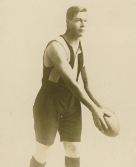 Photograph of Jim Lawn from 1923-1924